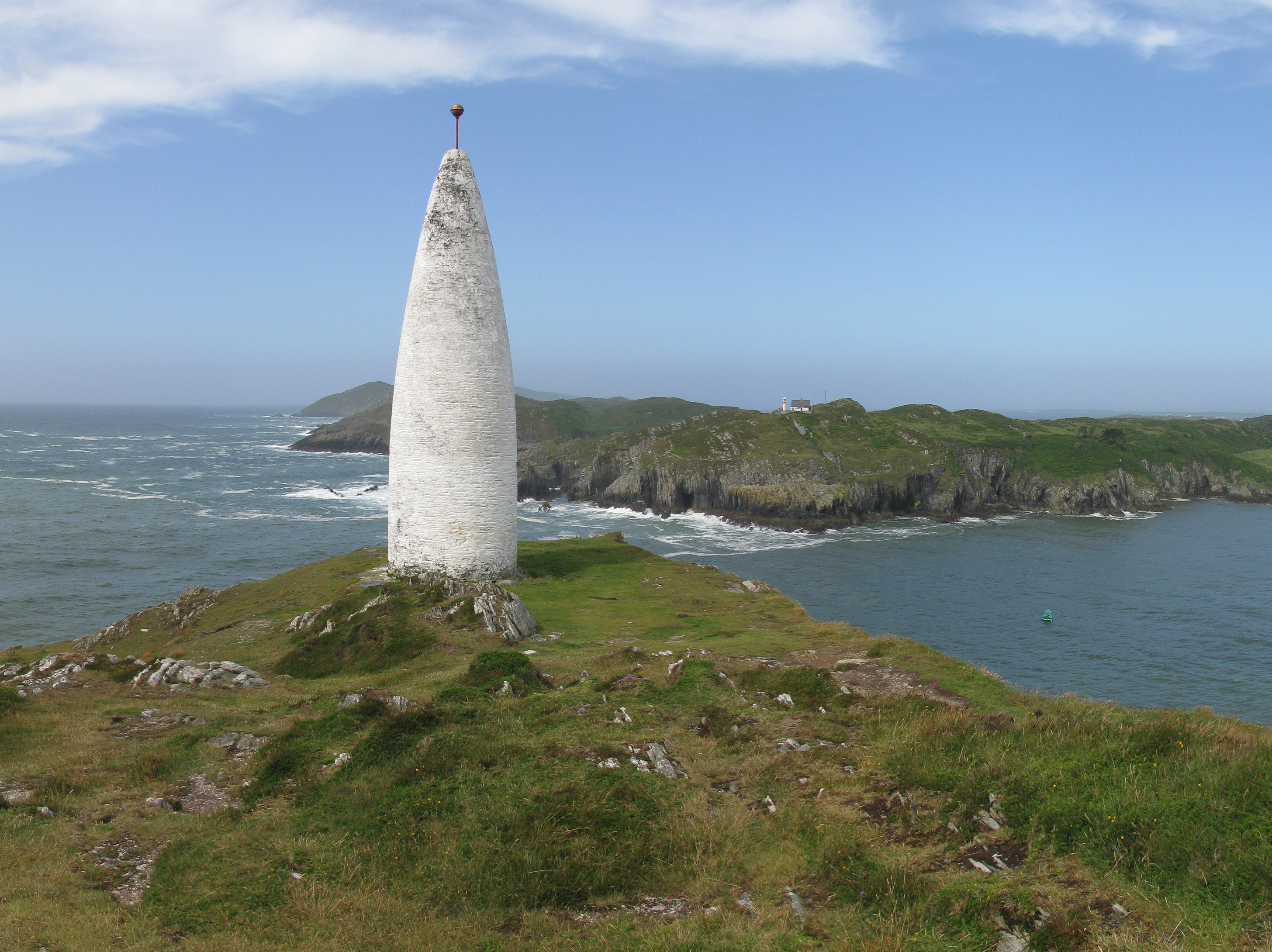 View of Baltimore Beacon near Baltimore, Co. Cork, Ireland.